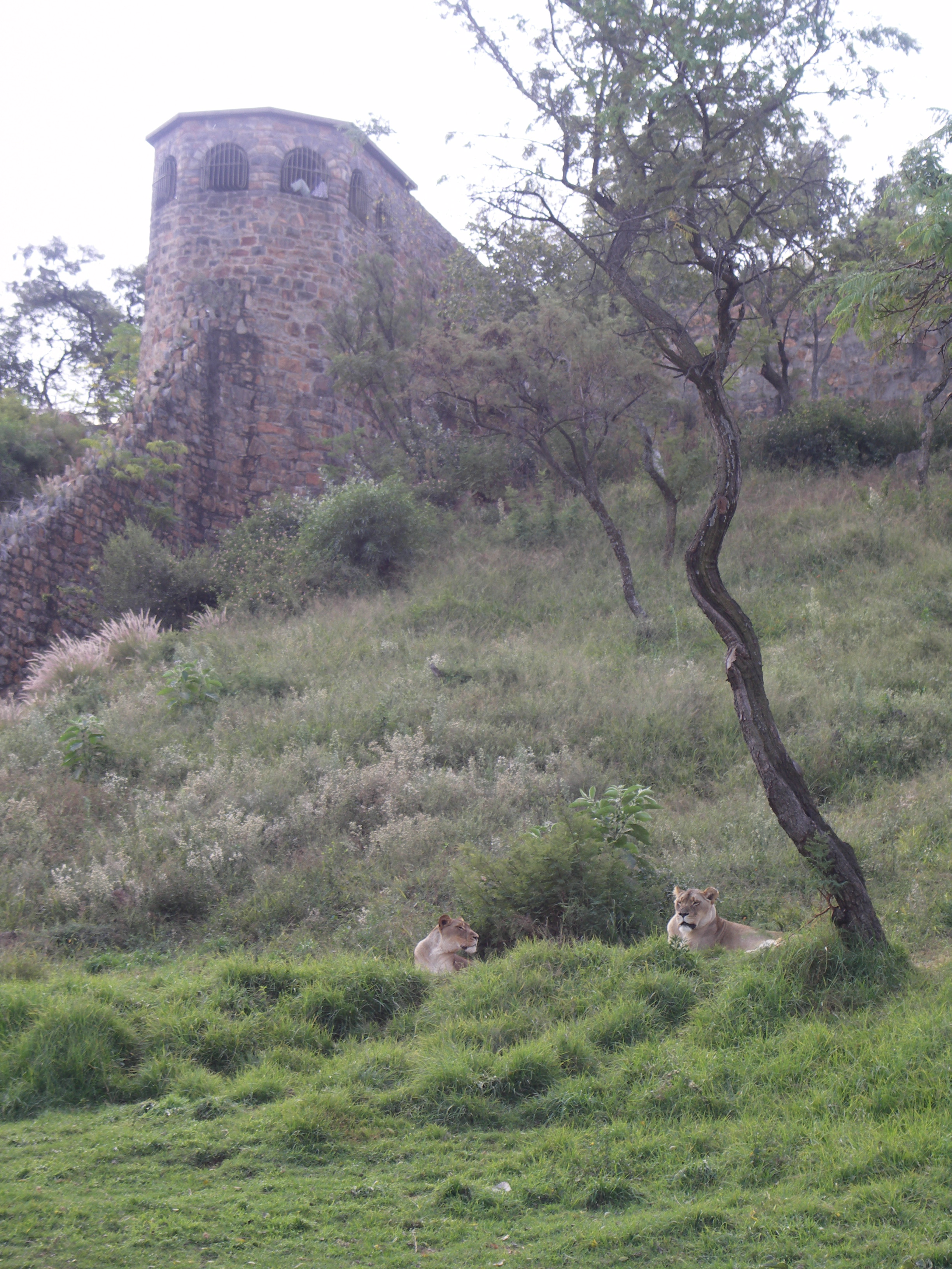 Lions at the National Zoological Gardens of South Africa